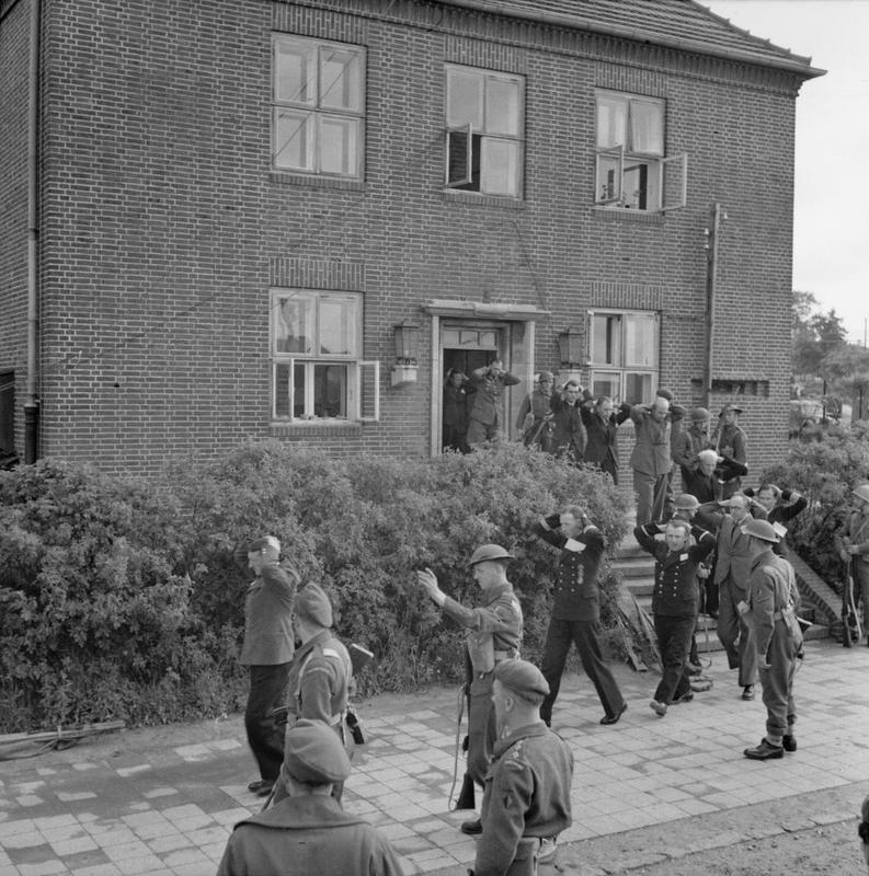 Germany Under Allied Occupation Prisoners being led away from the house in Mürwik a few miles from Flensburg, where members of the German Government were located. The operation was carried out by men of 'A' Company, 1st Battalion, The Cheshire Regiment. In total, twelve 'Grade 1' prisoners were taken including General Jodl.